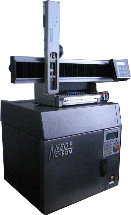 Sample of gas chromatograph with auto sampler